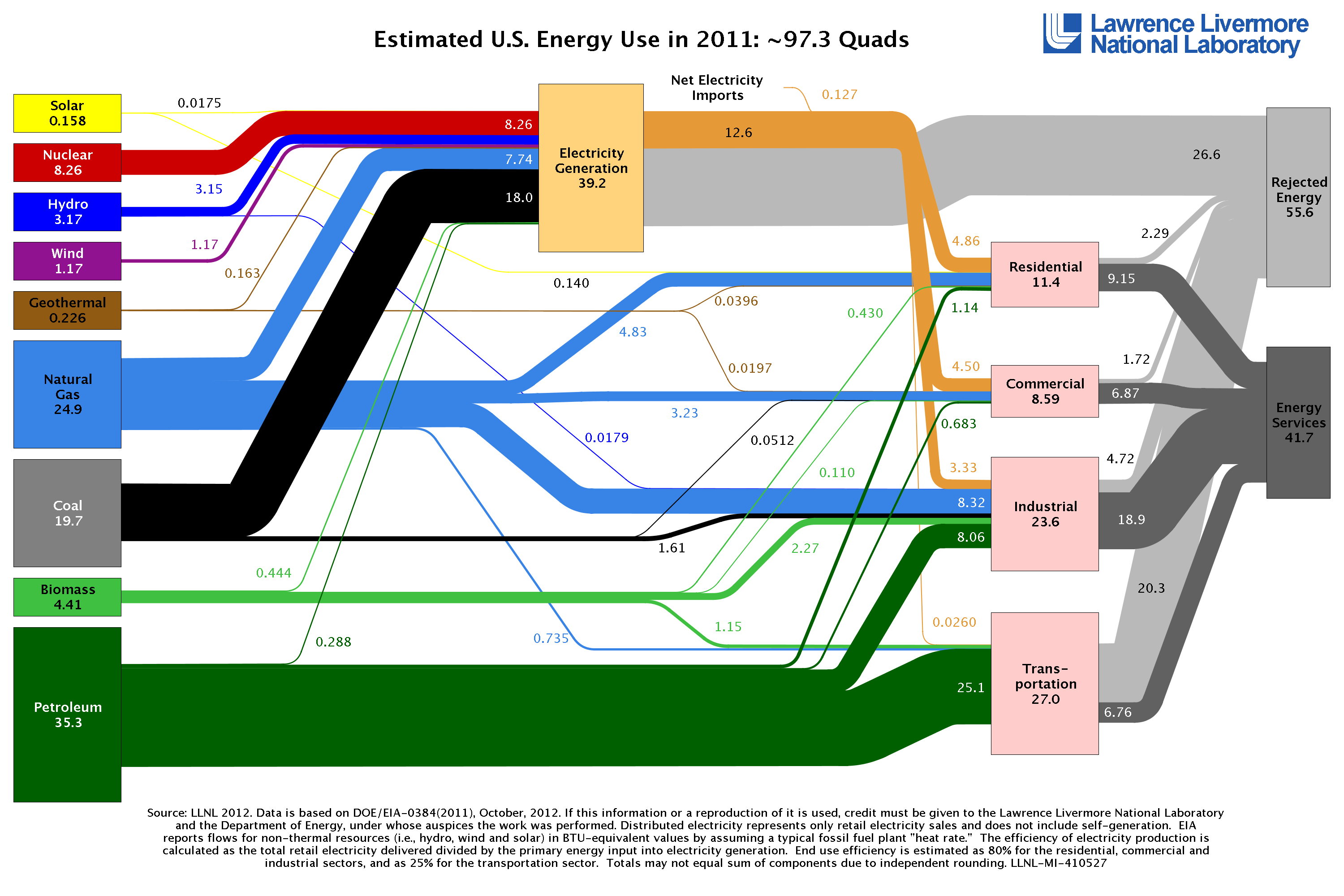 "Estimated Energy Use in 2011: 97.3 quads. Energy flow charts show the relative size of primary energy resources and end uses in the United States, with fuels compared on a common energy unit basis."